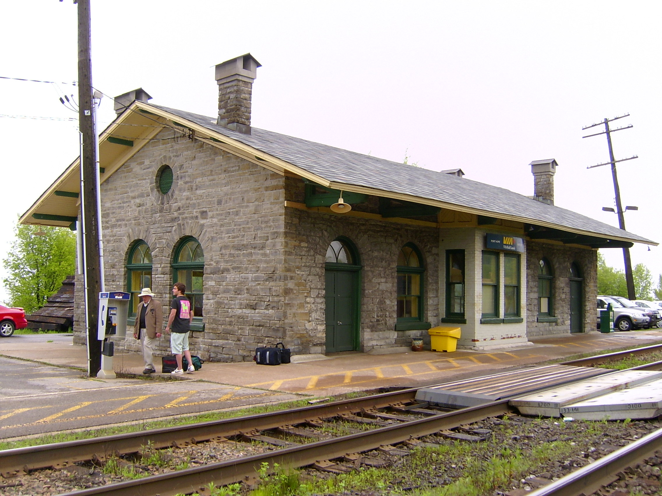 Port Hope VIA Rail Station in Ontario, Canada. Built in 1856 for the Grand Trunk Railway. Unlike the Belleville VIA Rail station, built the same year, this station was decommissioned for a number of years and has only recently been restored to active service